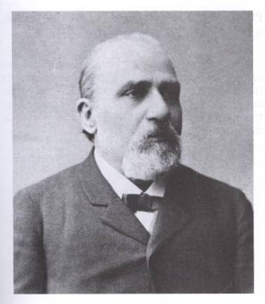 A photograph of Natko Nodilo.